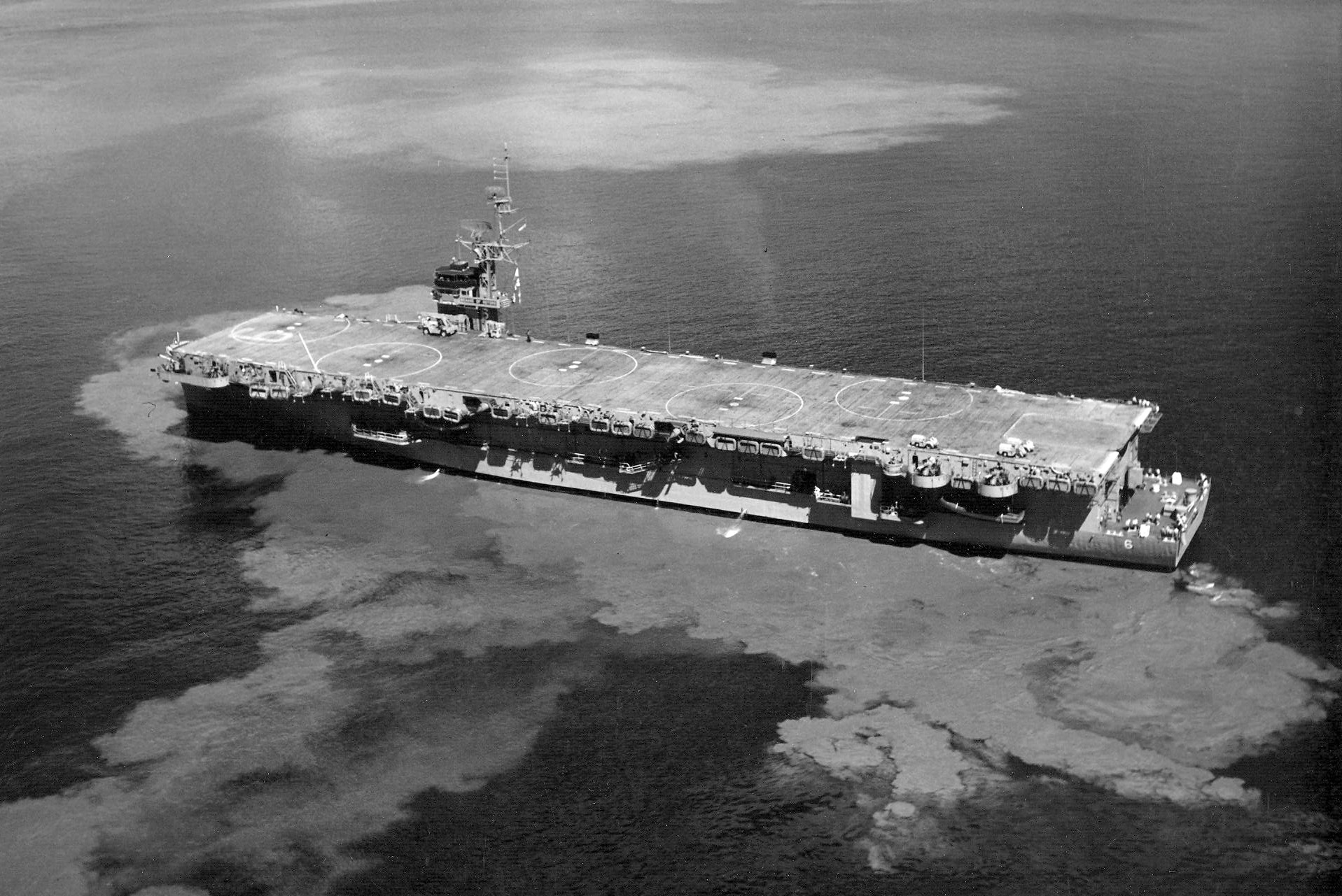 The U.S. Navy helicopter carrier USS Thetis Bay (LPH-6), circa 1963.